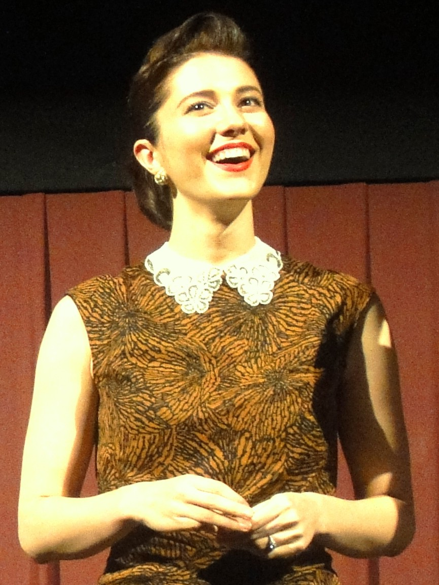 Mary Elizabeth Winstead at the Scott Pilgrim vs. The World, Austin Alamo Drafthouse (South Lamar) 2010.